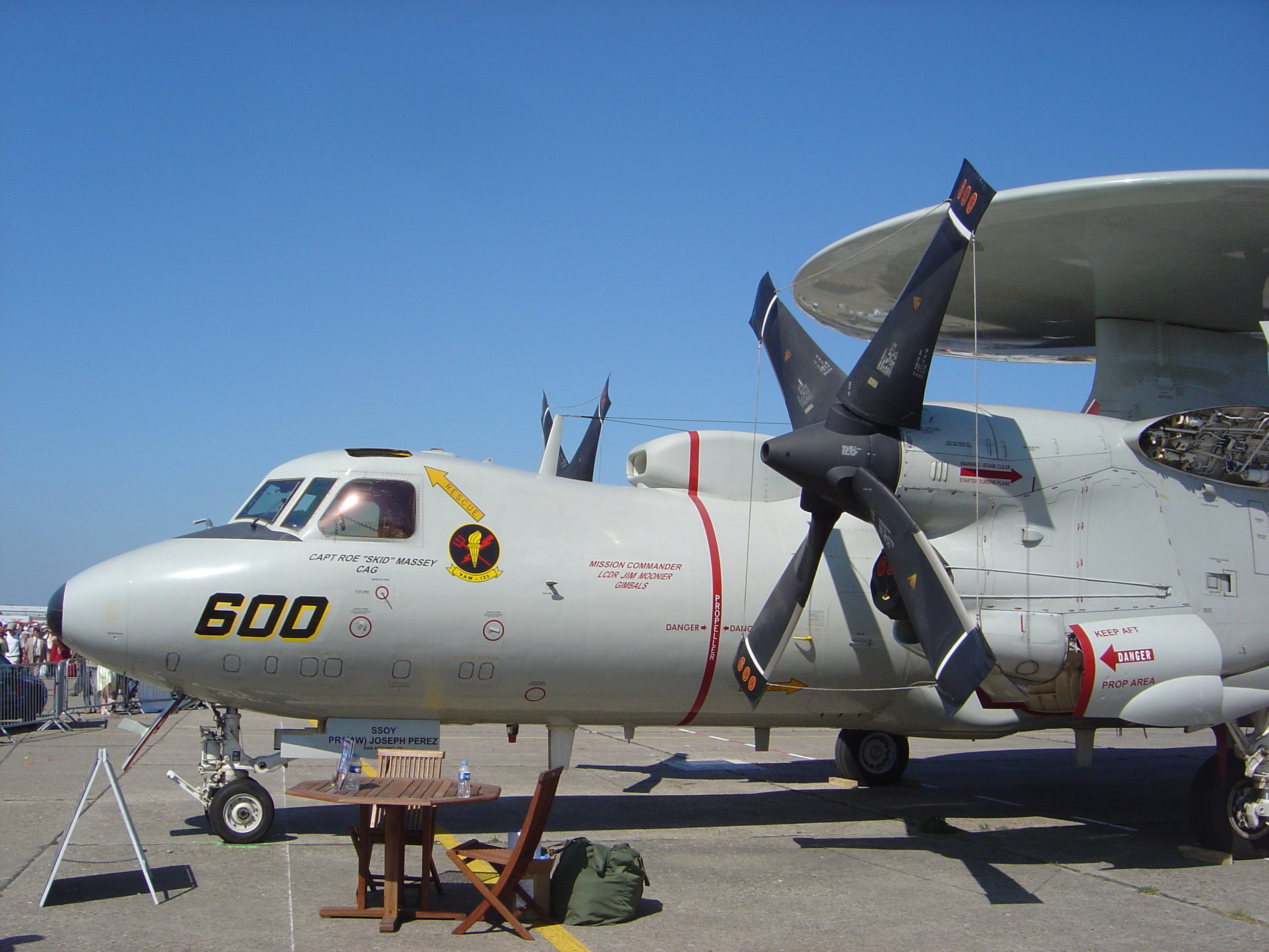 E-2 Hawkeye Photograph taken at: Paris Air Show, 2005